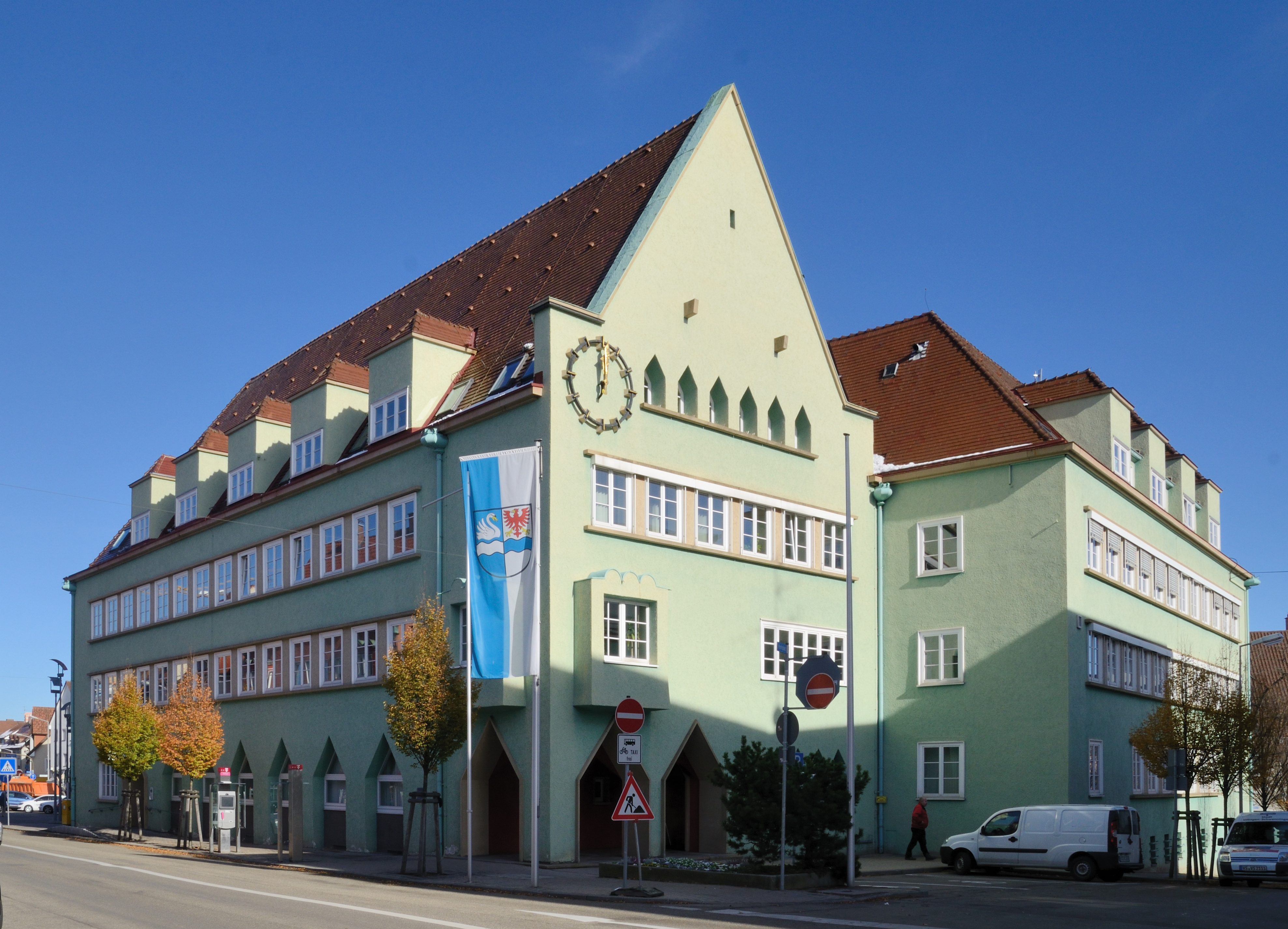 Schwenningen: Town hall